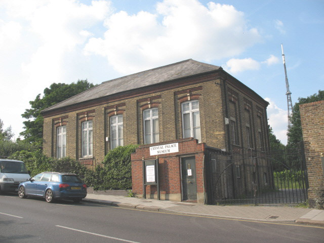 Crystal Palace Museum The museum building may look unassuming, but it is listed as a "Historical Engineering Work" as the only surviving Victorian building on the Crystal Palace site. It was originally the School of Practical Engineering, opened in 1872.